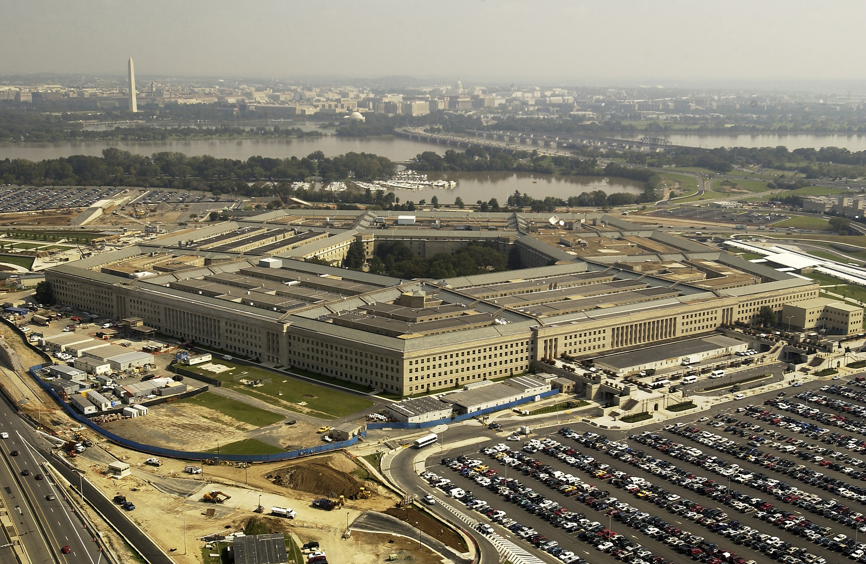 Aerial photograph of the Pentagon in Arlington, Va., on Sept. 26, 2003.